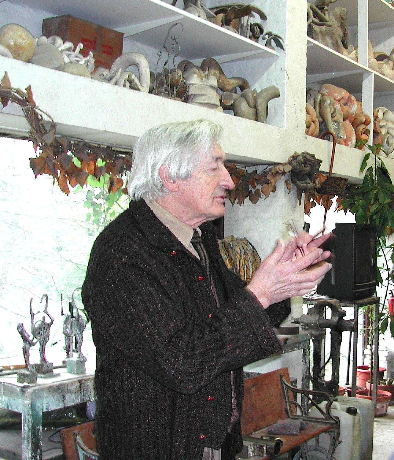 Belgian sculptor Olivier Strebelle talks with a group of American writers in his home/studio outside of Brussels in January 2009.